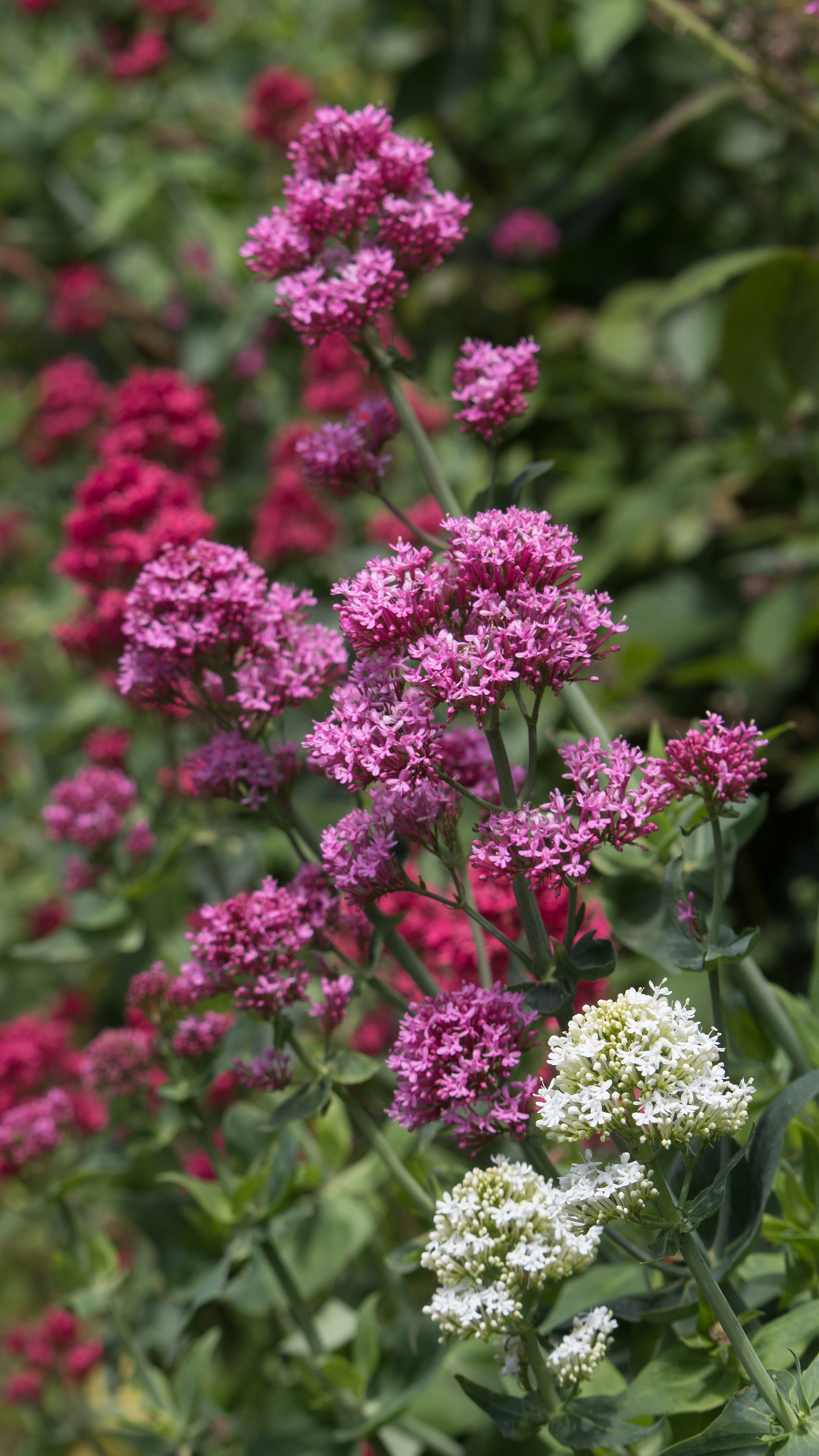 Photograph showing three common colour forms of Centranthus ruber